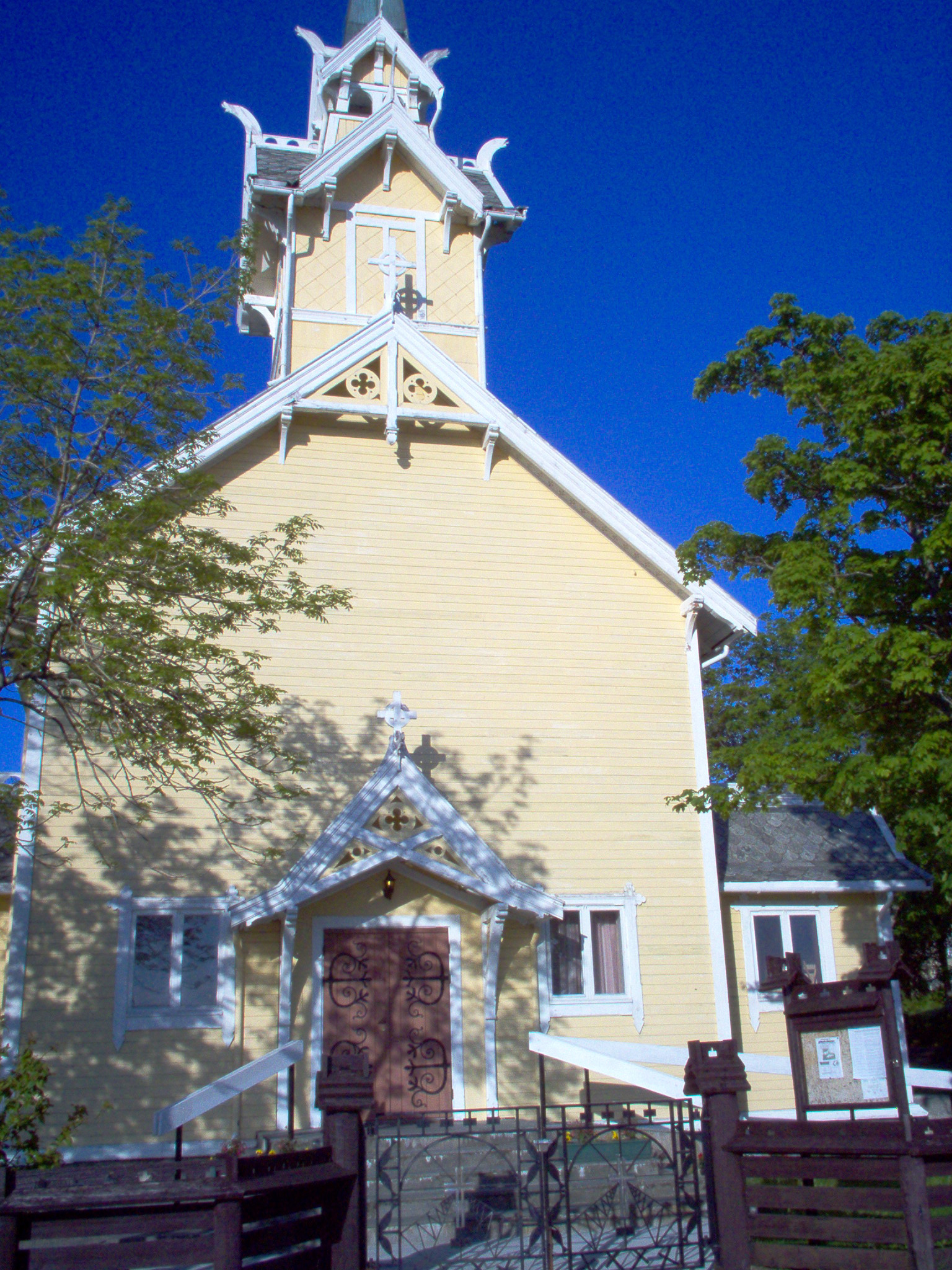 The church on Frei, Norway